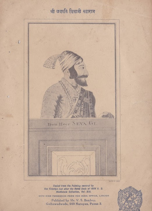 The true likeness of Chattrapati Shivaji Maharaj released to the public at large in Pune on Shivjayanti in Shivāji Mandir 1933, The document was released by Historian VS Bendrey under the auspices of Shaityacharya Na Chi Kelkar